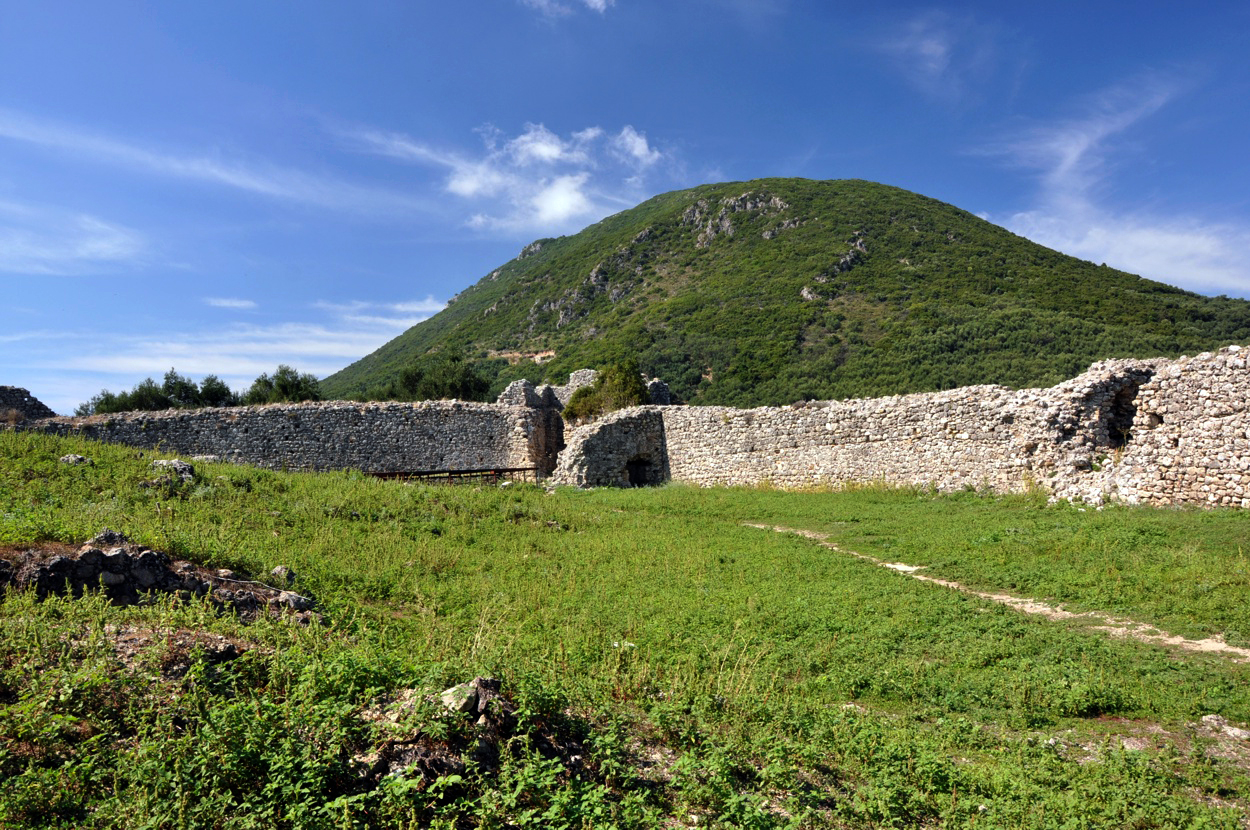 Gardiki in Corfu is a low foothill of the Agios Matheos mountain range on which stands the ruined Byzantine fortress. It was built as part of a ring of fortifications around the island, of which today only this one, Angelokastro and Cassiopi remain. Gardiki Castle was constructed in the 13th century by the Despote of Epirus, Michael Angelos II, who also built Angelokastro. The fortress is octagonal in shape and it has got a tower in every corner. What is particularly interesting here is the relics of ancient temples, which are embedded in its fortifications. The bordering parapets were adorned with traditional Byzantine artworks. The vestiges that one can see on the right hand side of the main entrance are believed to belong to the in-house chapel. It is not known when and why the castle was abandoned, but certainly in the 16th century after Barbarossa's attack (1537) it was already deserted.